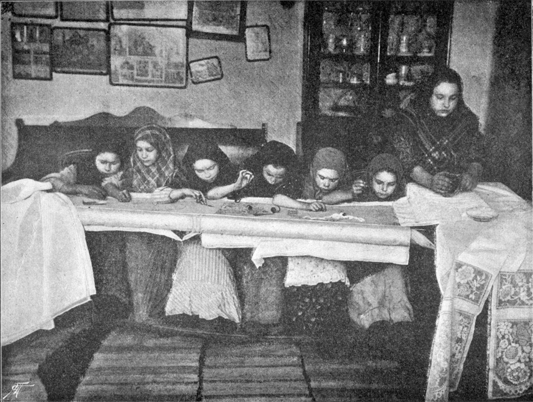 Handicraft Industry and Trades of Nizhegorodskaja gubernija. Katunki. XIX c.